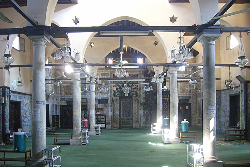 Inside the el-Shurbagi mosque, Alexandria, Egypt